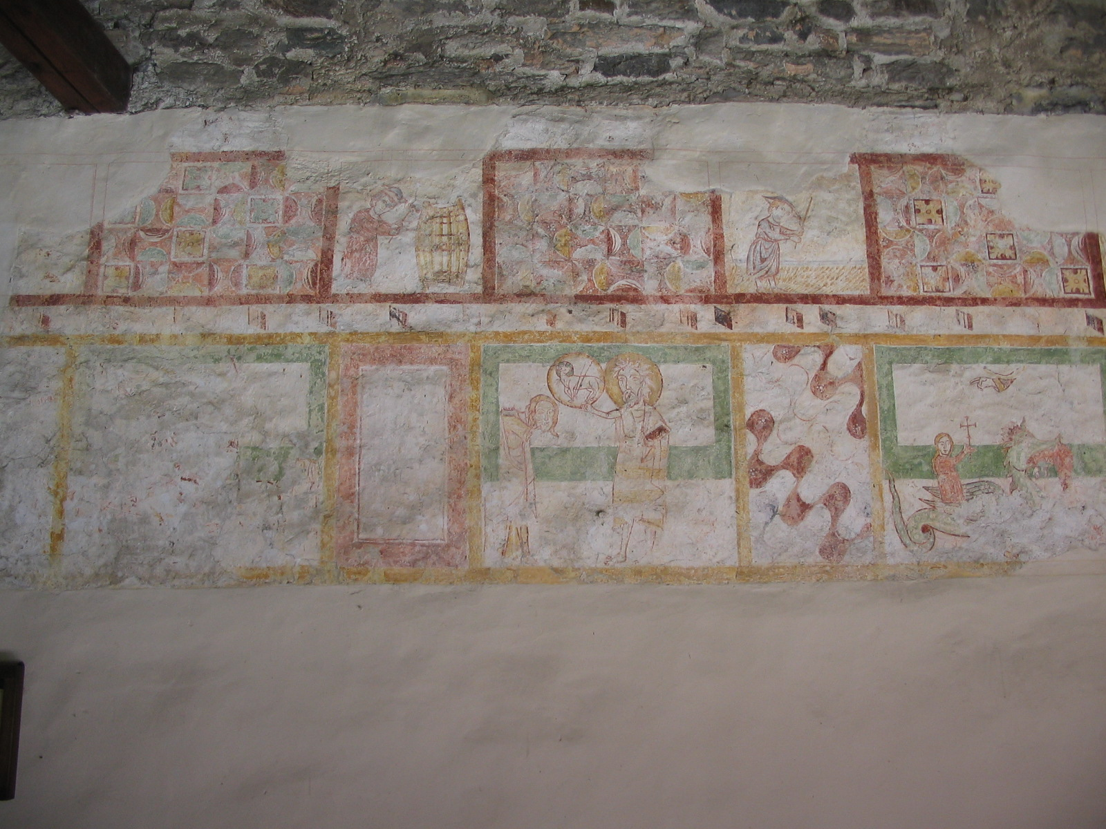 Priorato di Piona: Calendar. Detail from the fresco in the cloister. Picture by: Giorces.